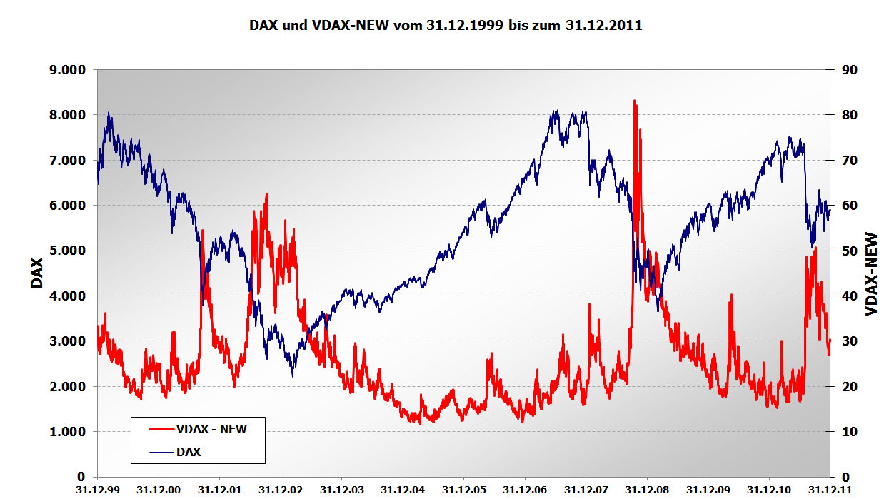 German Stock Market Index DAX an the related volatility index VDAX-NEW.